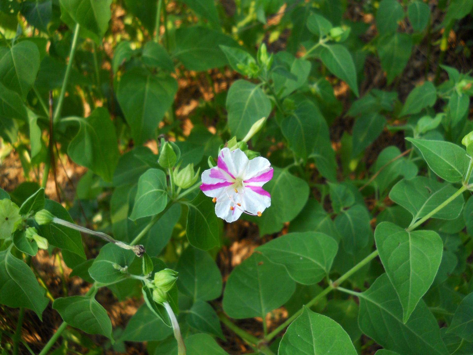 Variegated flower on 4-o'clock plant in south Mississippi, USA